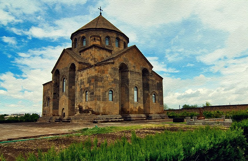 The 7th century Armenian church of Saint Hripsime in Ejmiatsin, Armenia, a UNESCO World Heritage Site.